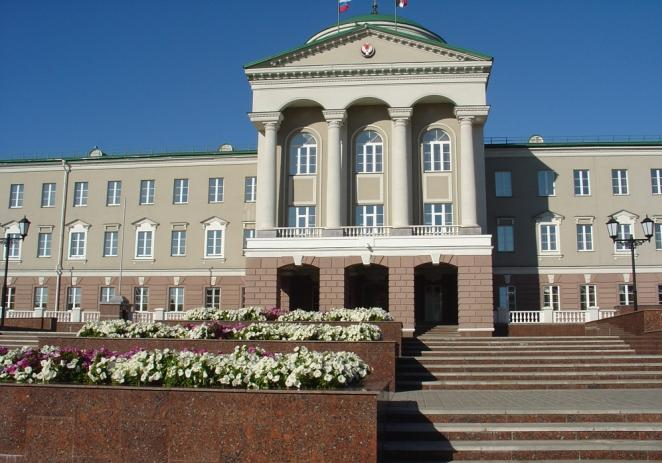 Personal photos